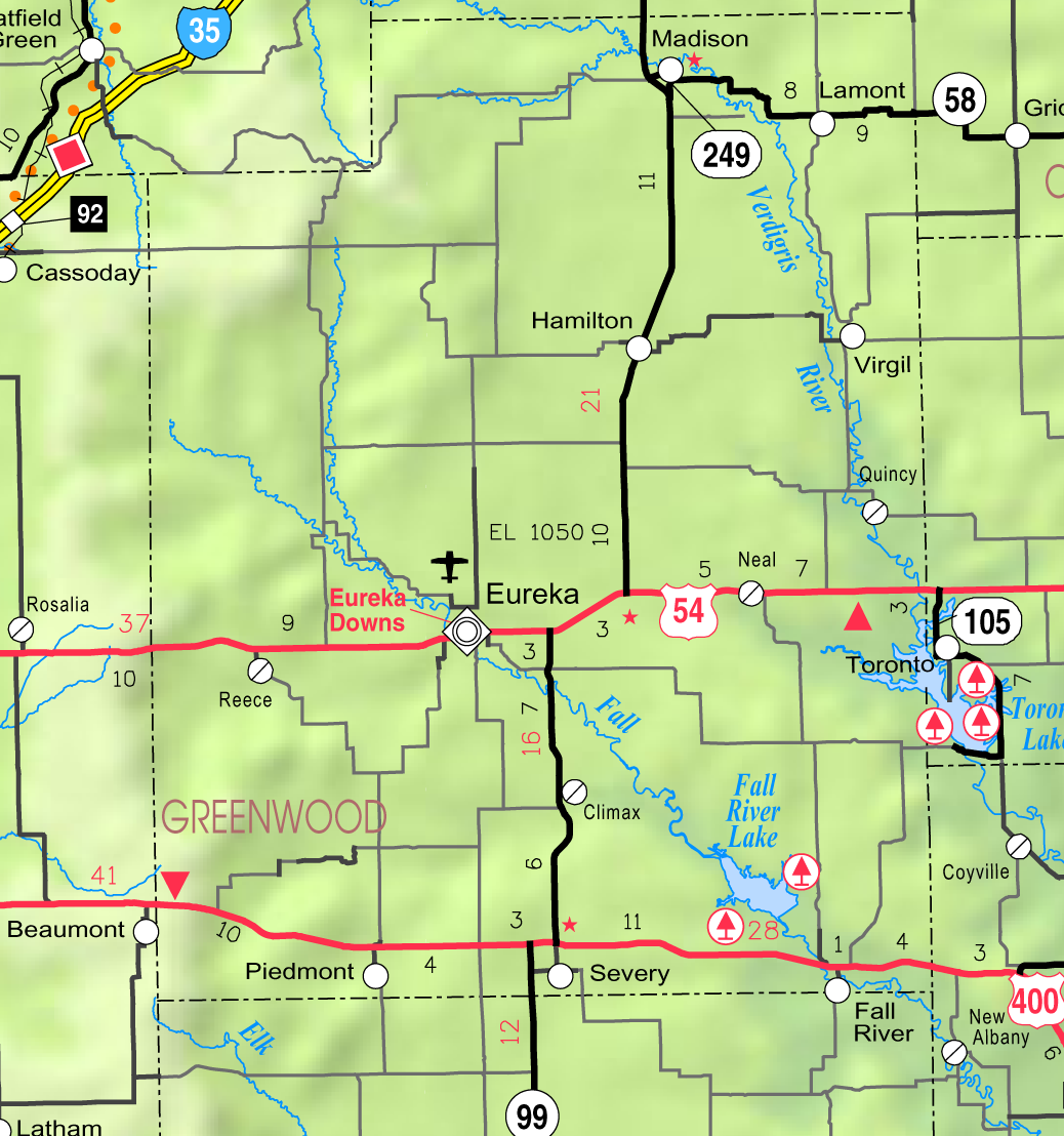 This map of Greenwood County, Kansas, USA, is copied at a resolution of 300 pixels/inch from the original PDF file.